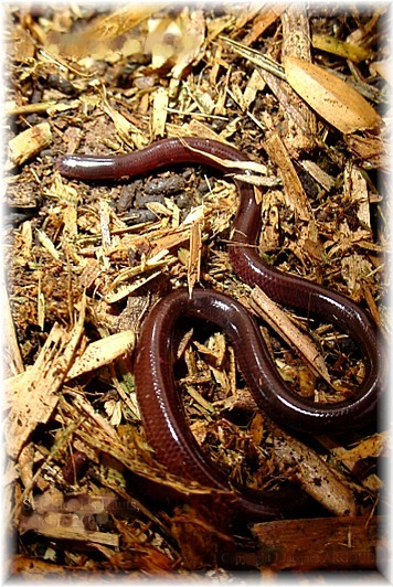 Blind minute snake (Ramphotyphlops braminus), Reunion Island